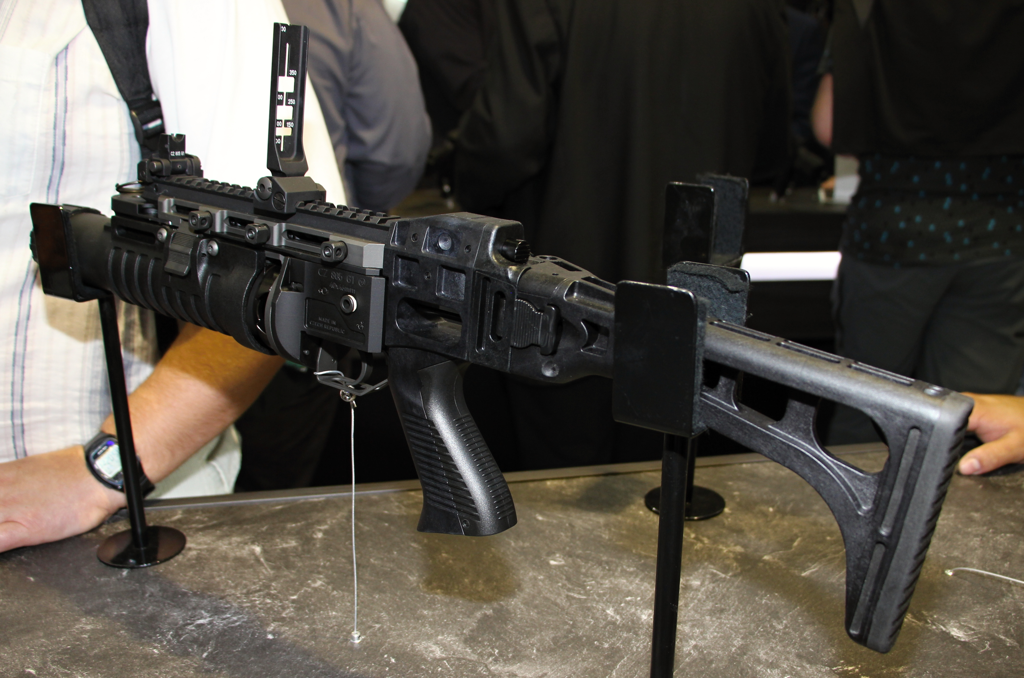 CZ 805 G1 is a multi-purpose single-shot grenade launcher developed by CZUB for the 805 BREN A1/A2 assault rifle. IDET 2017, Brno Exhibition Center, Czech Republic.